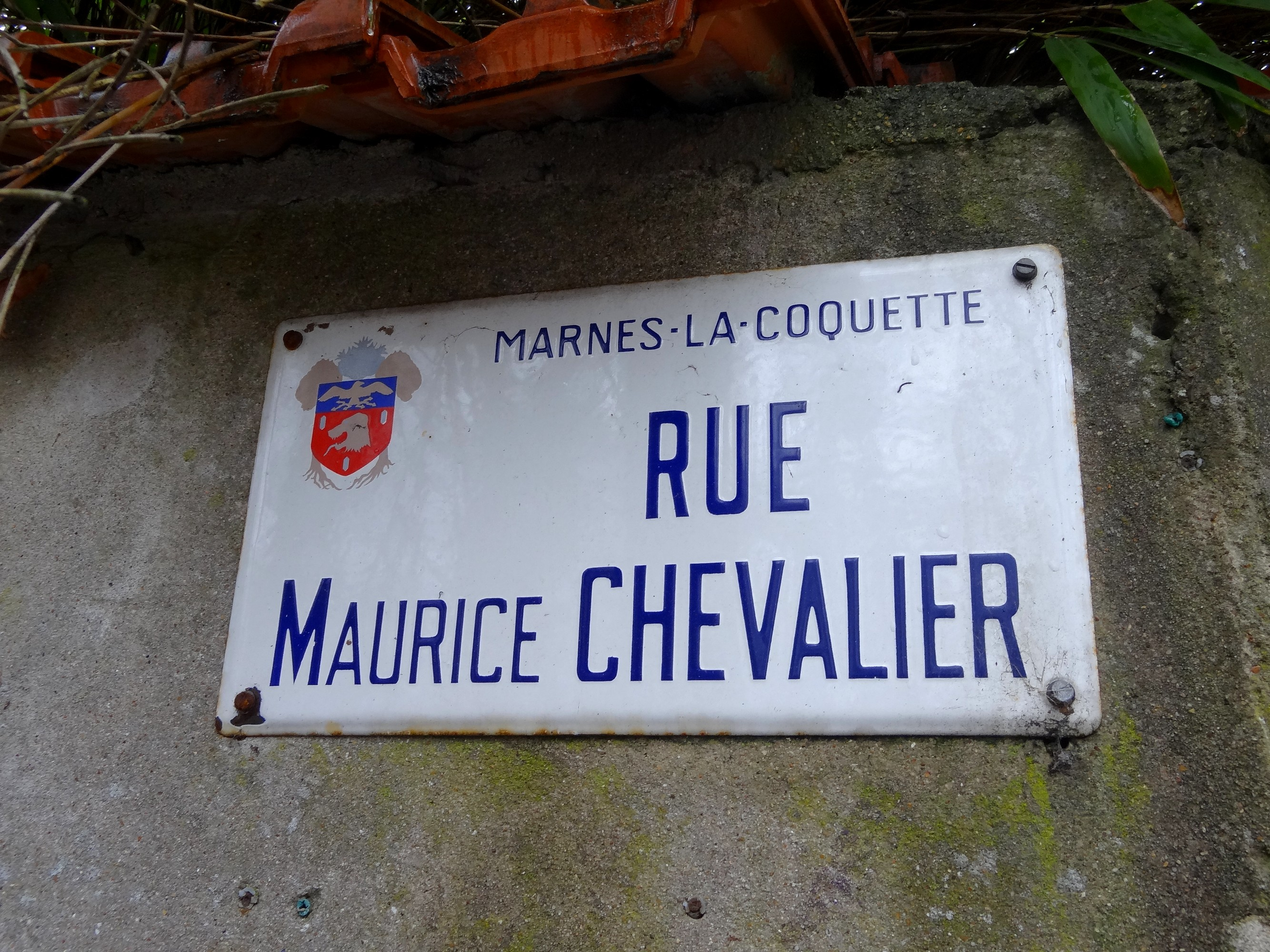 Maurice Chevalier Street in Marnes-la-Coquette (France).